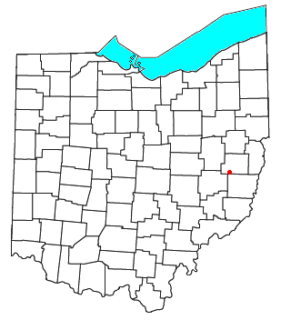 Locator map of the unincorporated community of Piedmont in Harrison County, Ohio, United States.